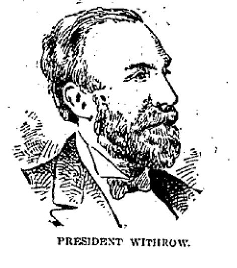 Portrait of John Jacob Withrow (1833-1900). Withrow was a local contractor and land developer in Toronto, Canada, and he was also known for: He was one of the founders of the Toronto Industrial Exhibition (predecessor to the Canadian National Exhibition) - he served as the exhibition's president for a number of years; His firm, Withrow and Hillock, served as the contractor during the construction of Massey Hall during the 1880s, and Withrow served as chairman of the Massey Hall Board of Trustees. He was a benefactor of the Hospital for Sick Children. He served as a City Councillor for 5 years commencing in 1873, for both St. David's and St. Thomas wards. He ran unsuccessfully for Mayor of Toronto in 1872 and 1885. A park and a street in Toronto's Riverdale neighbourhood are named after Withrow.